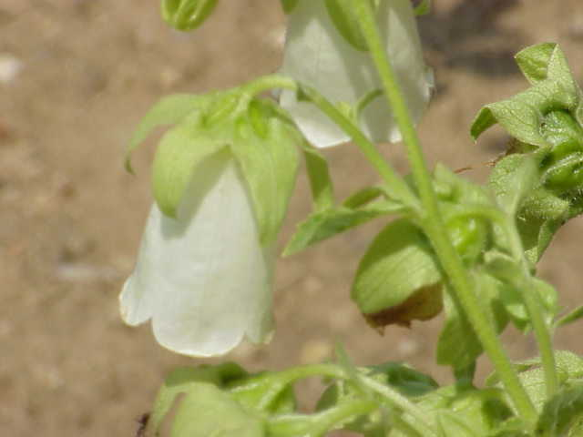 Species: Symphyandra pendula Family: Campanulaceae Image No. 1